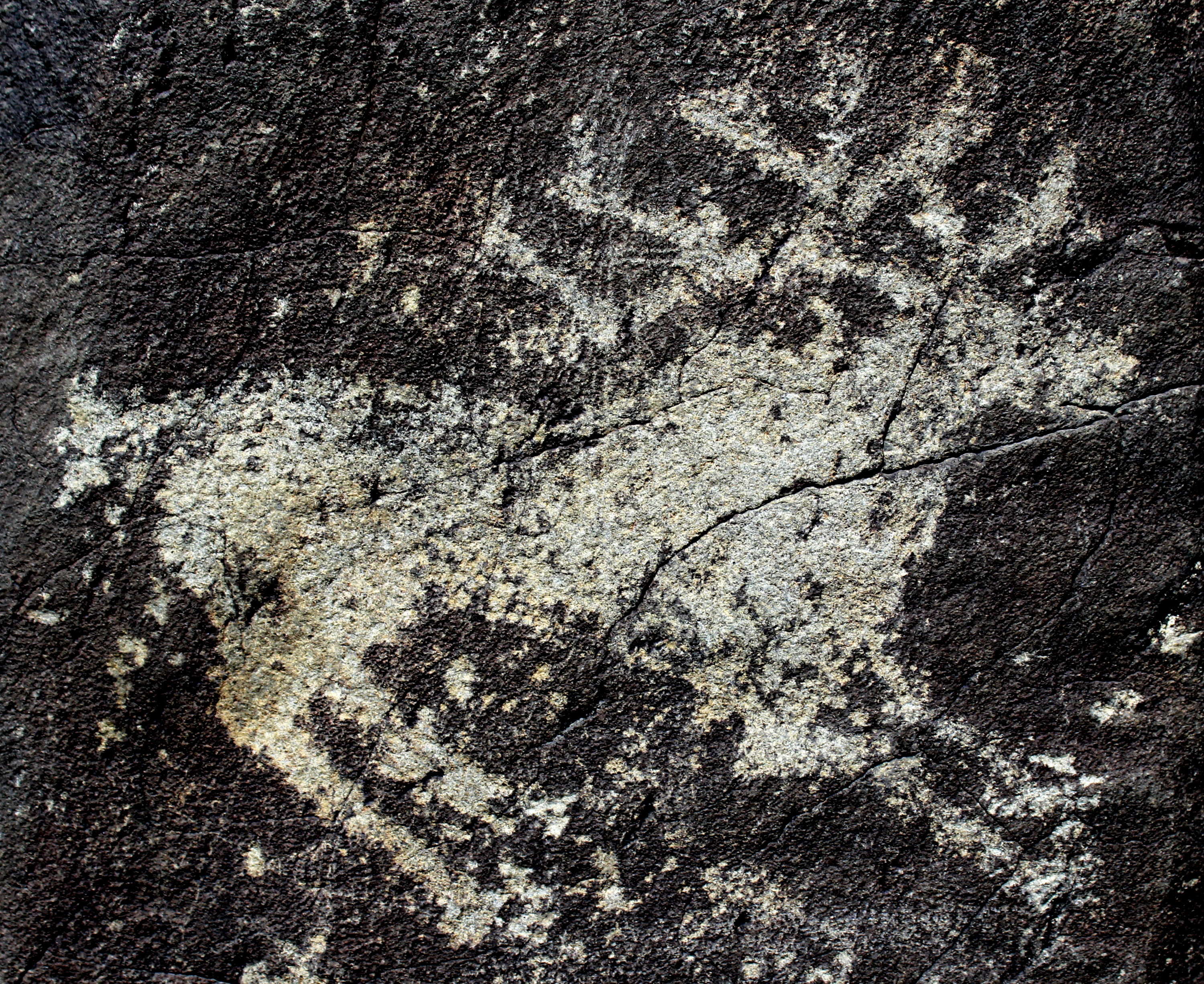 Petroglyphs on Mount Baga-Zarya. Siberia, Buryatia.